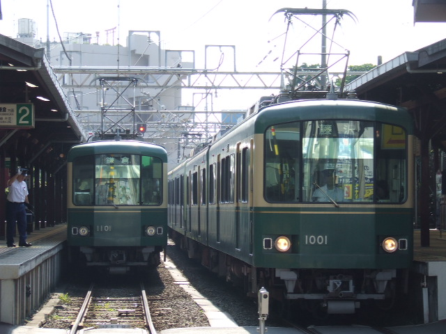 Model 1000, Enoshima Electric Railway, Japan